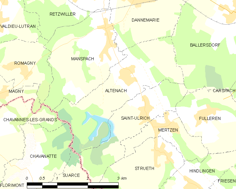 Map of French municipality